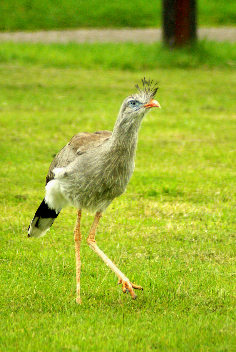 Red-legged Seriema at Whipsnade Zoo, England.